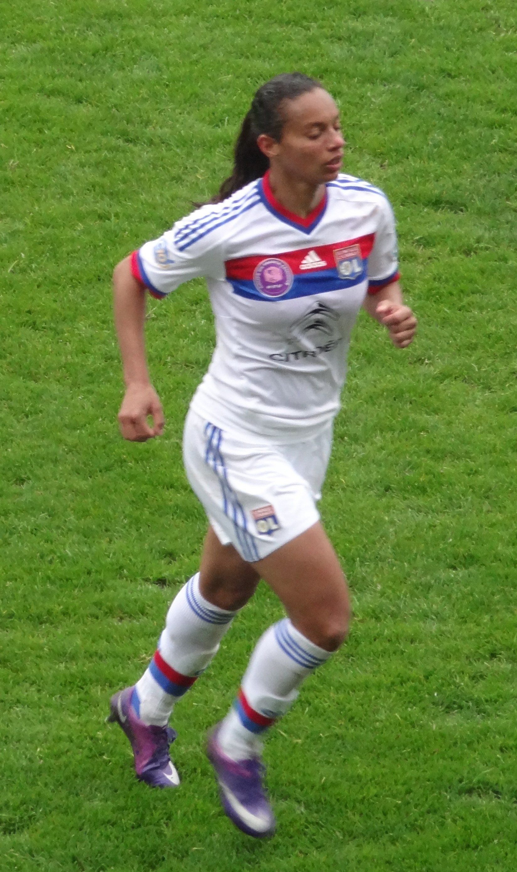 Rosana dos Santos Augusto (Olympique Lyonnais)